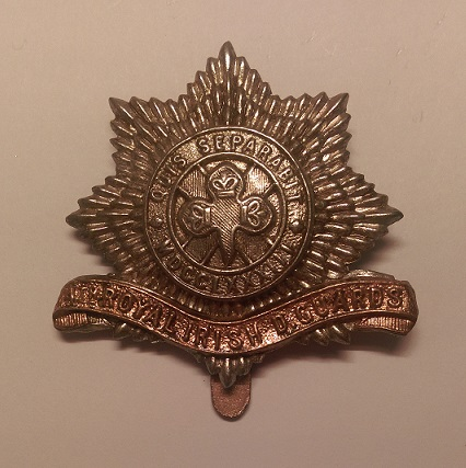 Photo of 4th Royal Irish Dragoon Guards Cap Badge from personal collection